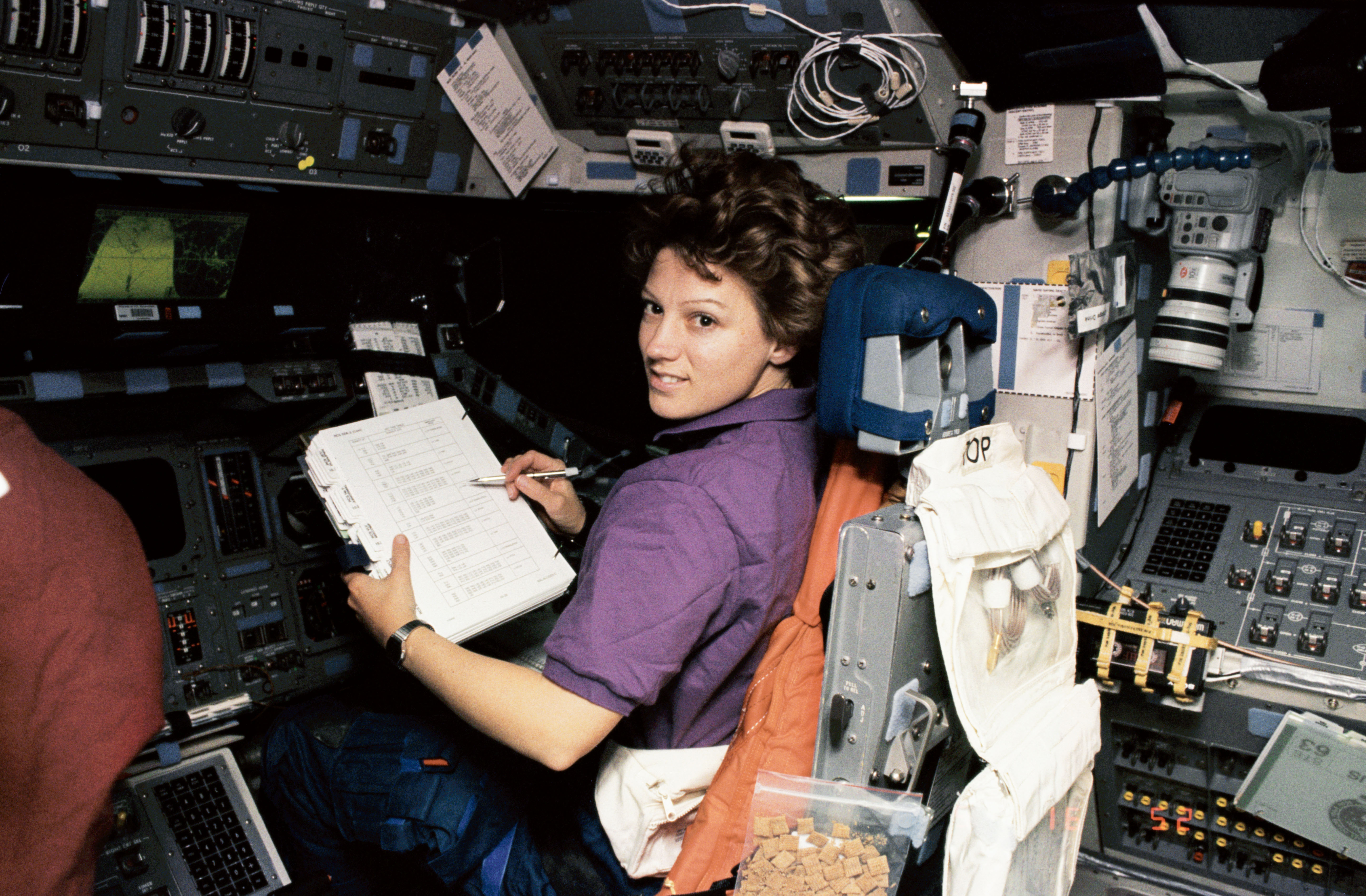 In this Feb. 3, 1995, image taken onboard space shuttle Discovery on flight day one of the STS-63 mission, astronaut Eileen M. Collins -- the first woman to pilot the shuttle -- is at the pilot's station during a "hotfiring" procedure prior to rendezvous with the Russian Mir Space Station.